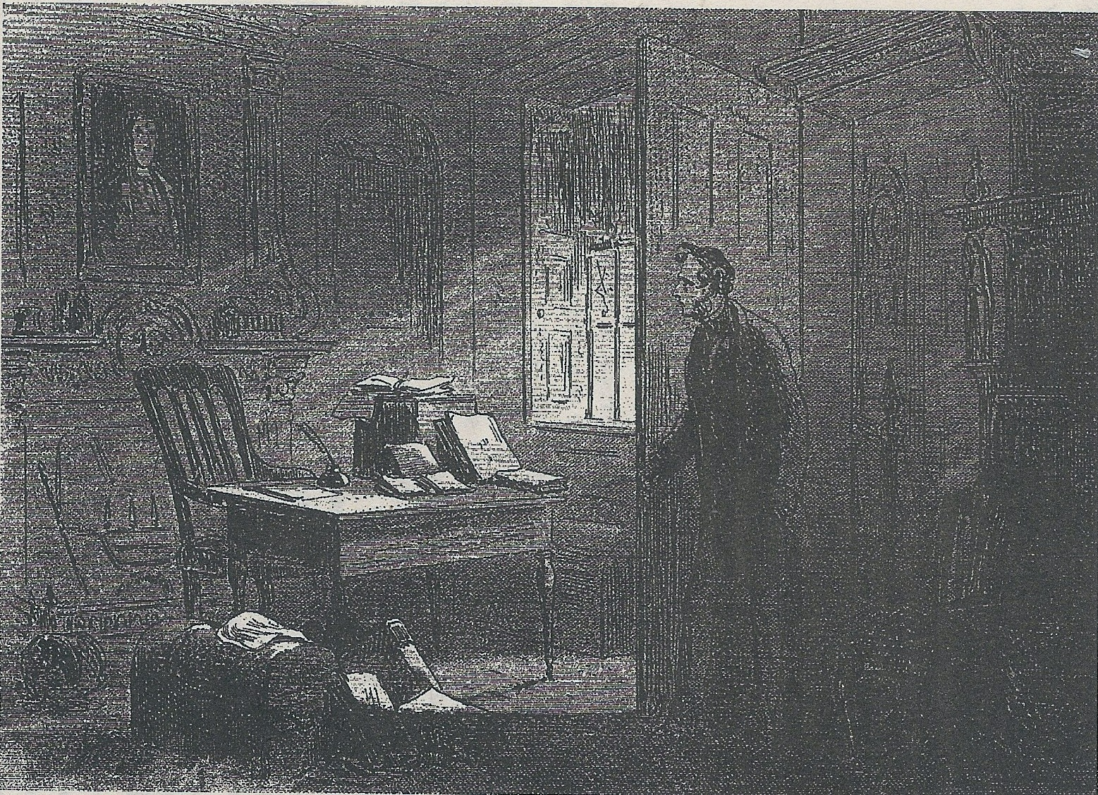 Little Dorrit, The room with the portrait, by Phiz